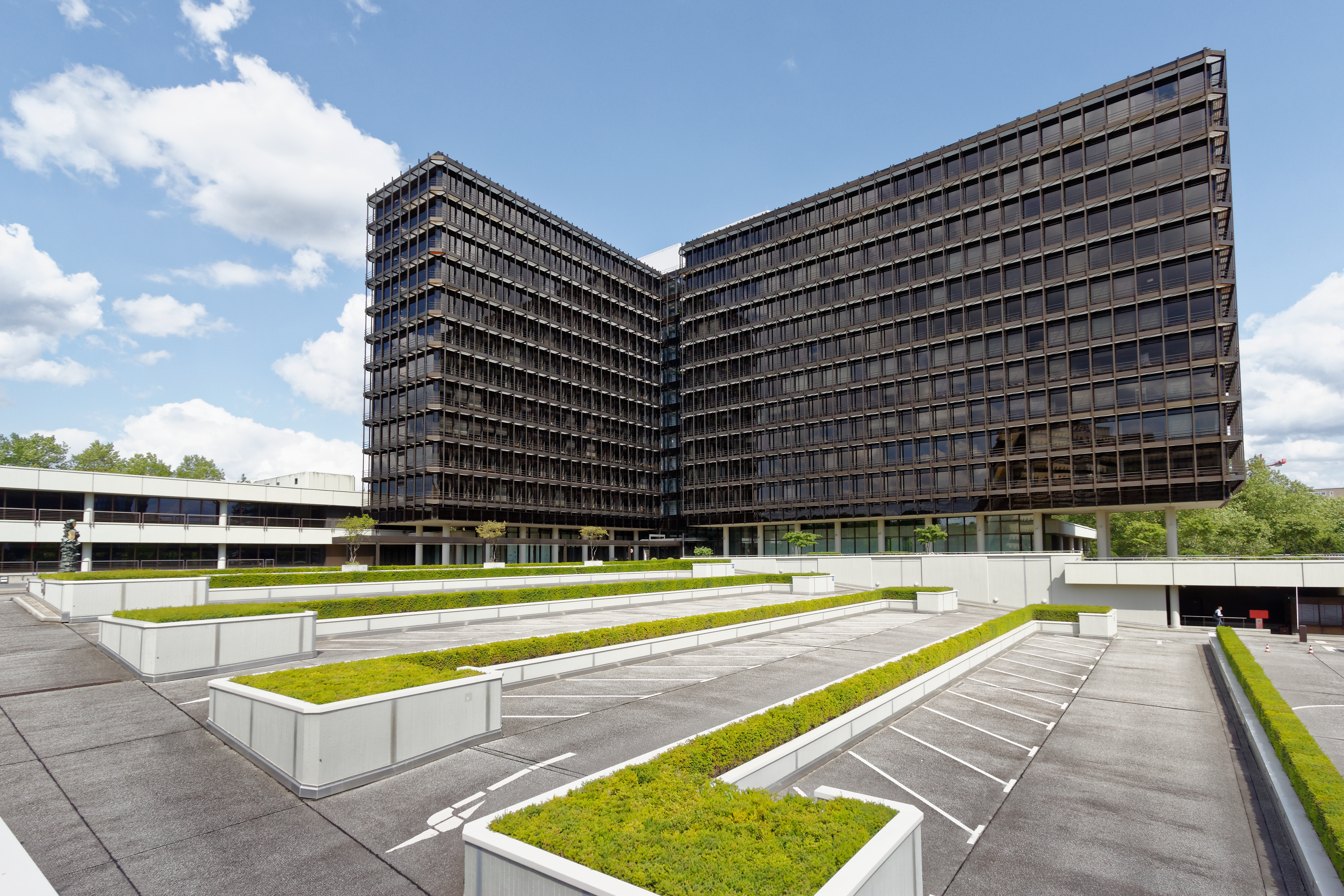 Hamburg-Winterhude, commercial area City Nord, former main office building of the German Royal Dutch Shell (moderately straightened)